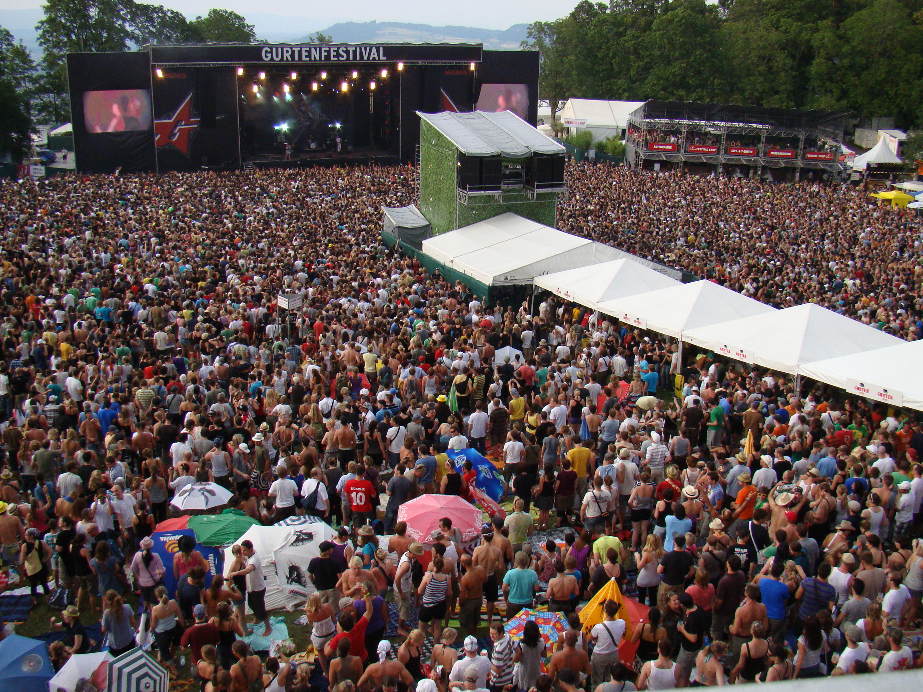 Gossip performing at the 2010 Gurtenfestival.